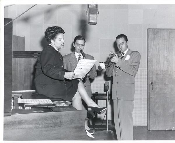 Photo